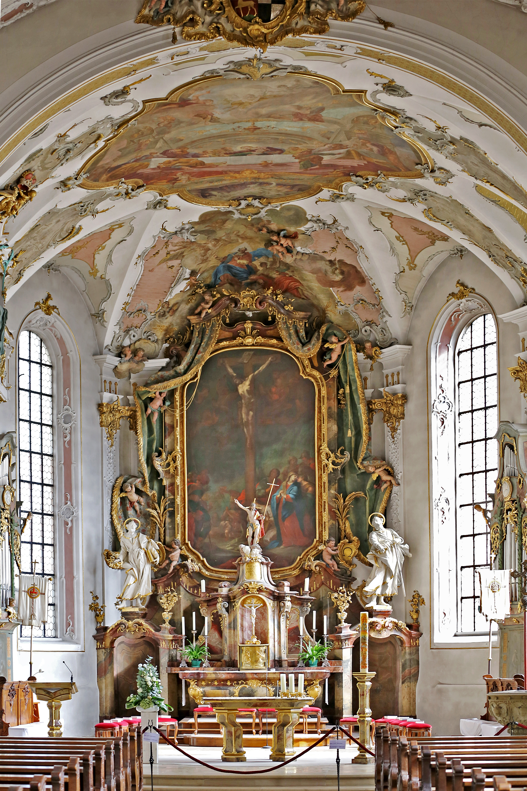 Chancel of the baroque church St. Johann Evangelist in Sigmaringen. The church was built between 1757 and 1763. Sigmaringen is a city on the upper Danube in Baden-Württemberg.